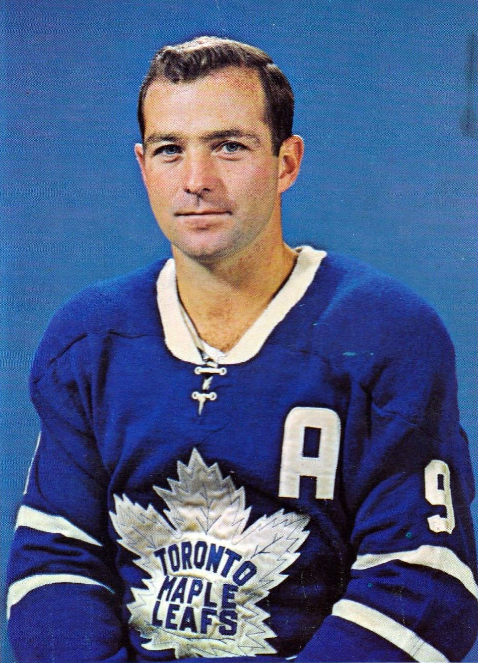 Dick Duff, Toronto Maple Leafs Printed on Chex Cereal Boxes from 1963 to 1965 per [1]. No copyright notices are observed on the obverse or reverse of the photos.